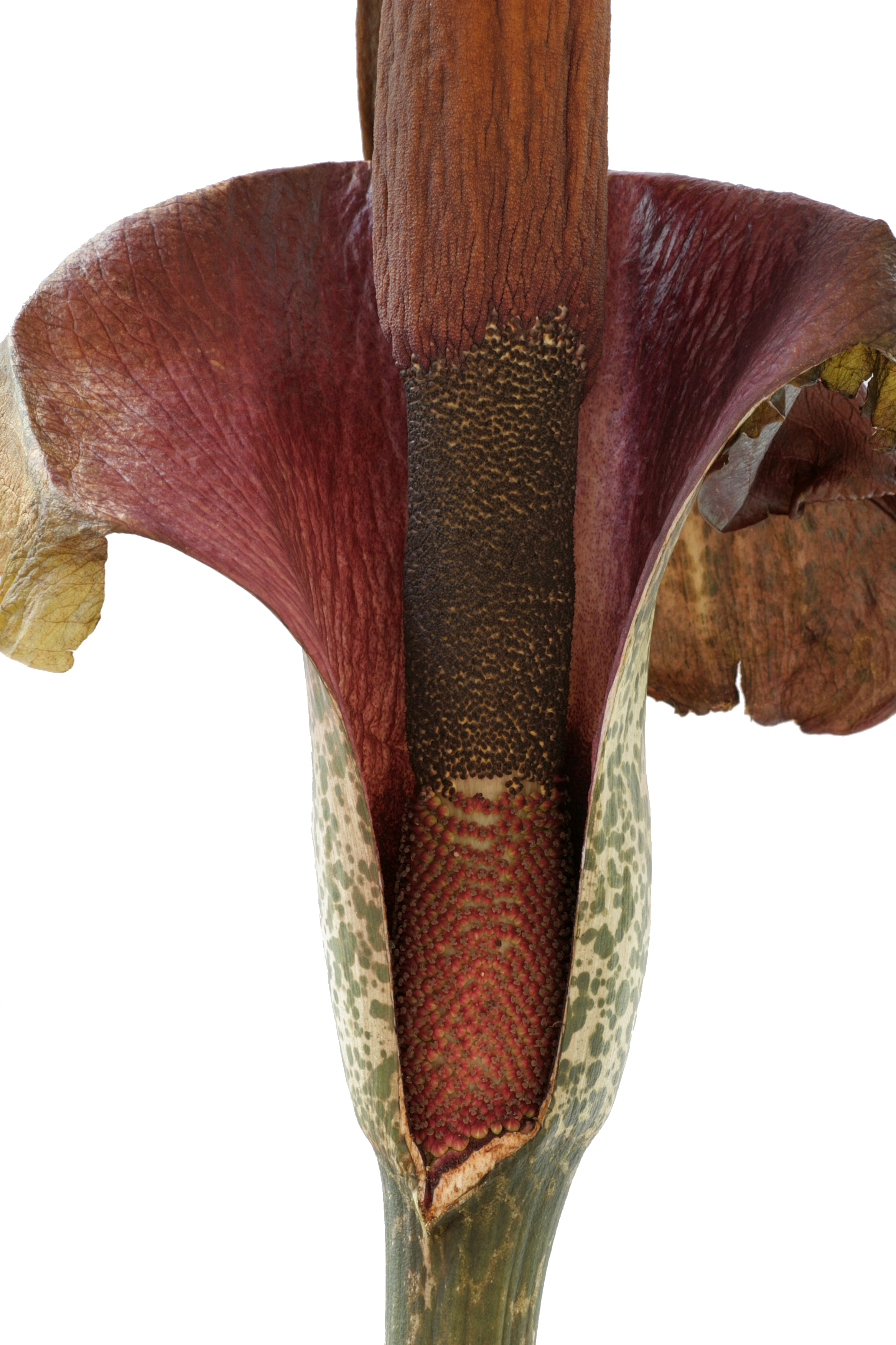 Inflorescence of Amorphophallus konjac cut open, de: Blütenstand von Amorphophallus konjac